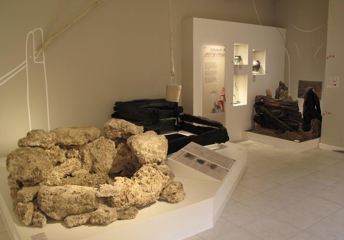 View into the exhibition of the AschheiMuseum: the area of "Natural environment and bases of existence" with wells dating from three different periods.